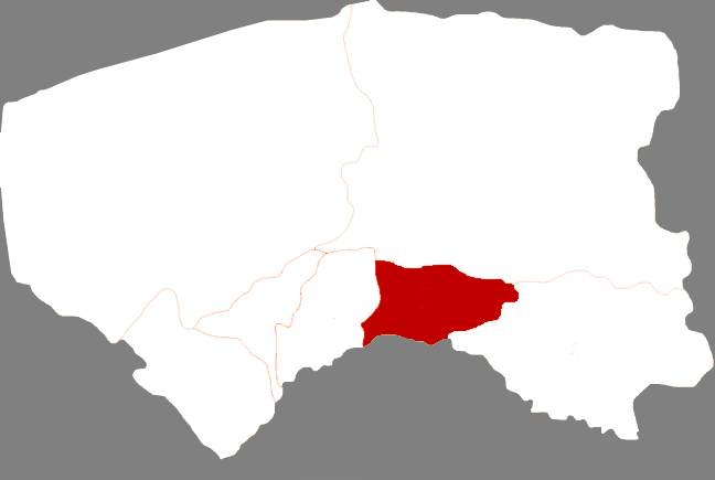 Locator map of Wuyuan County in Bayan Nur, Inner Mongolia, China